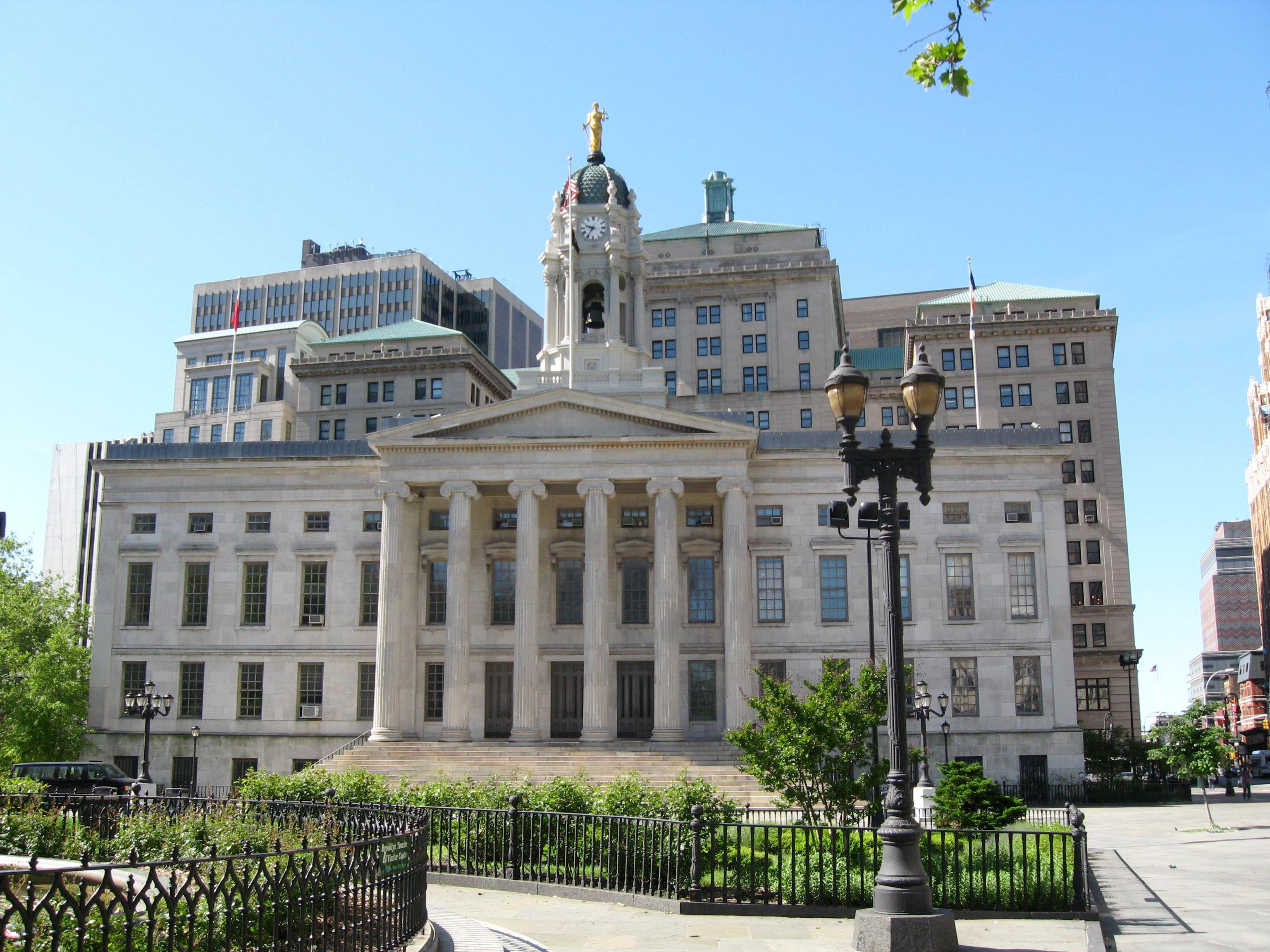 Looking south at Brooklyn Boro Hall on a sunny summer morning.